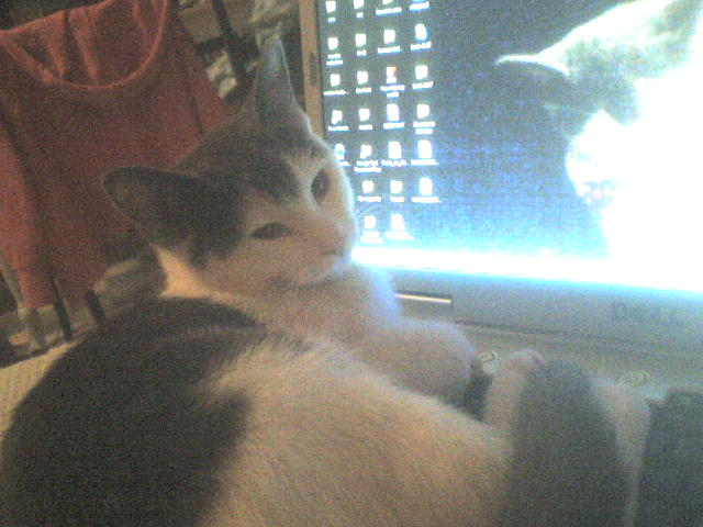 Cat on computer